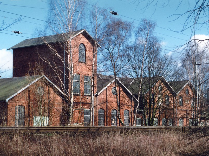 Pinneberg (Germany) old factory